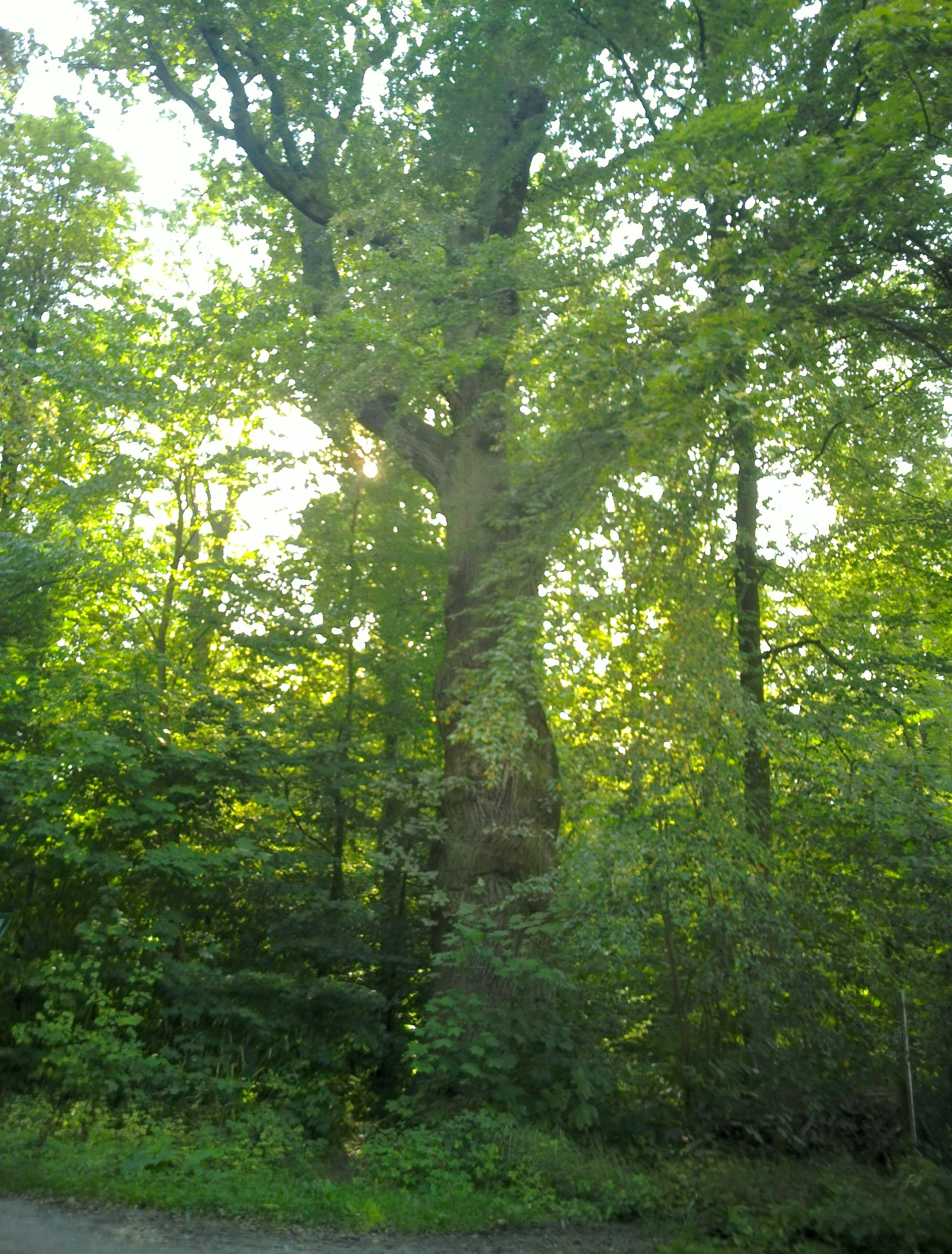 Natural monument "Ziegeneiche" in Deister near Wennigsen (Deister)